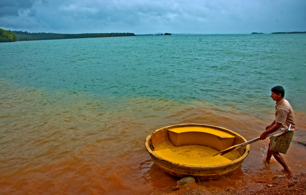 This picture is taken in Honnemoredu showing the Green water and Red soil